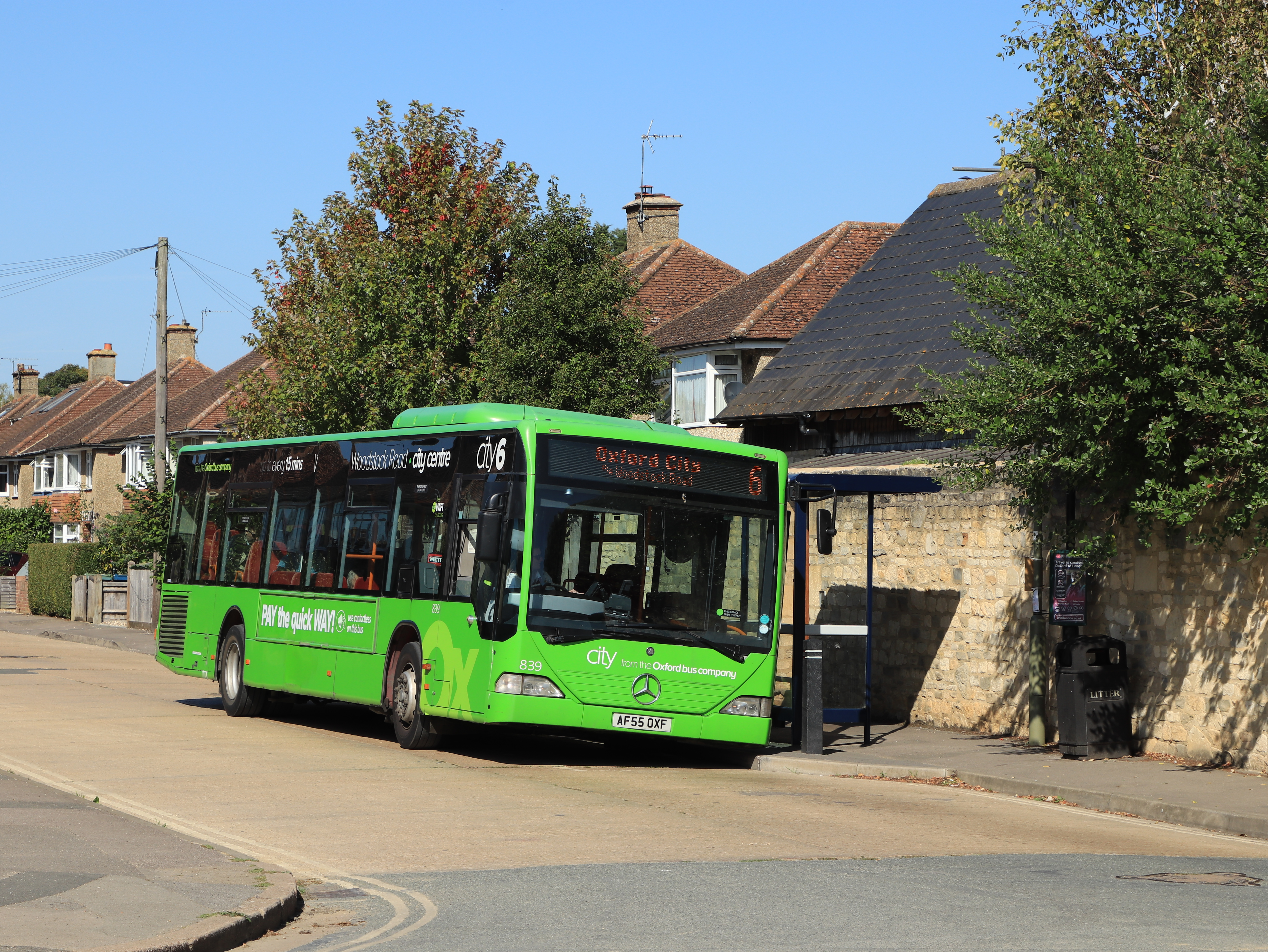 Oxford Bus Company's 839, a 2005 Mercedes Citaro, at the Wolvercote terminus of route 6